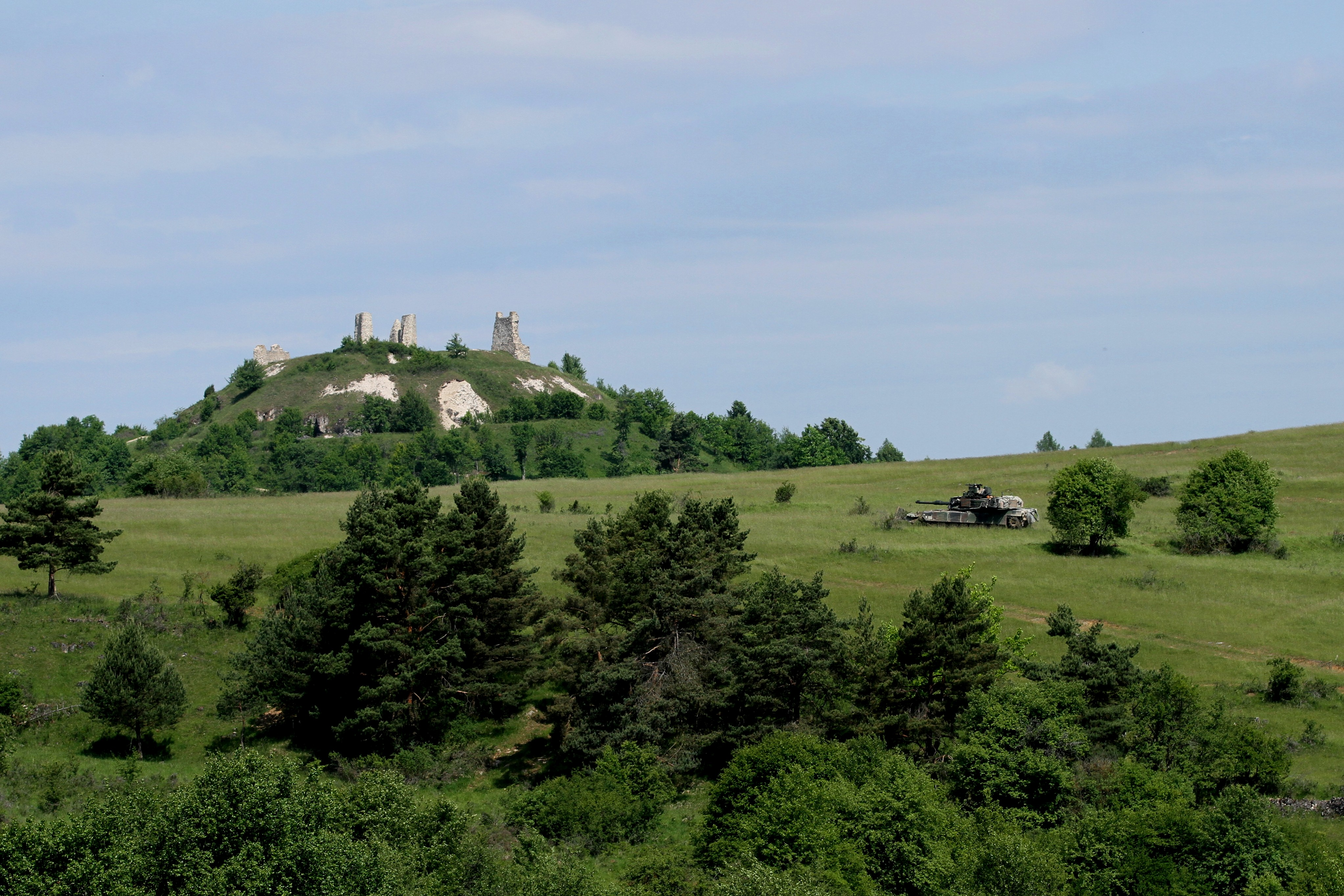 Abrams tanks with Company C, 2nd Battalion, 5th Cavalry Regiment, 1st Brigade Combat Team, 1st Cavalry Division, hunt for enemy in the Hohenfels Training Area during Combined Resolve II. The armored vehicles are part of the European Activity Set, a battalion-sized set of equipment pre-positioned on the Grafenwoehr Training Area to outfit and support U.S. Army forces rotating to Europe for training and contingency missions in support of the U.S. European Command. The EAS will be used for the first time by the 1st Brigade Combat Team, 1st Cavalry Division during exercise Combined Resolve II at the U.S. Army’s Grafenwoehr and Hohenfels Training Areas, May 15 – Jun. 30, 2014. For more photos, videos and stories from Combined Resolve II, check out (U.S. Army photo by Capt. John Farmer, 1st BCT, 1st CD Public Affairs).